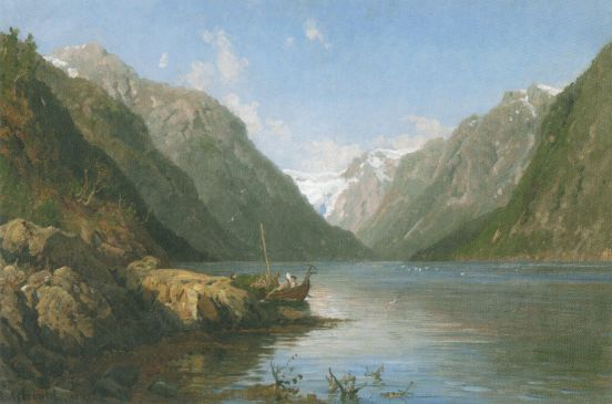 The motif is from Vetlefjorden by Balestrand in Sognefjord.